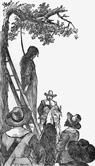 This illustration depicts the execution of Ann Hibbins on Boston Common in 1656.